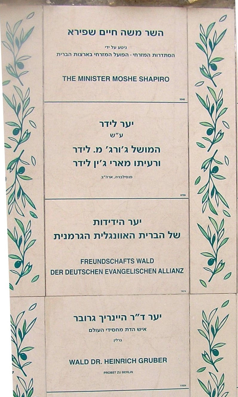 Jerusalem Forest: Dedication plaques for tree donators, among them Minister Moshe Shapira and Provost Dr. Heinrich Grüber